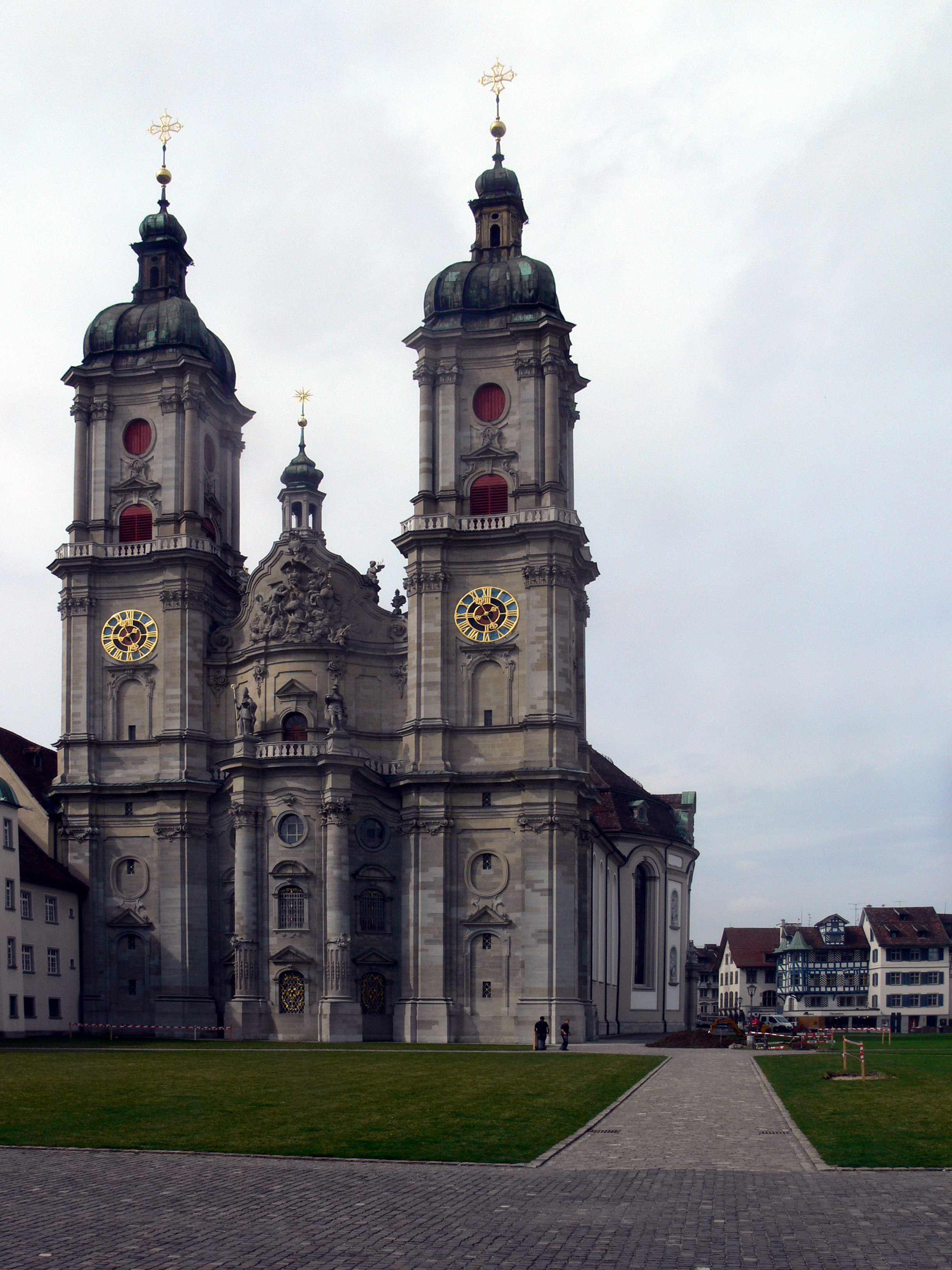 The cathedral of Sankt Gallen (Switzerland), former church of the Abbey of St. Gall